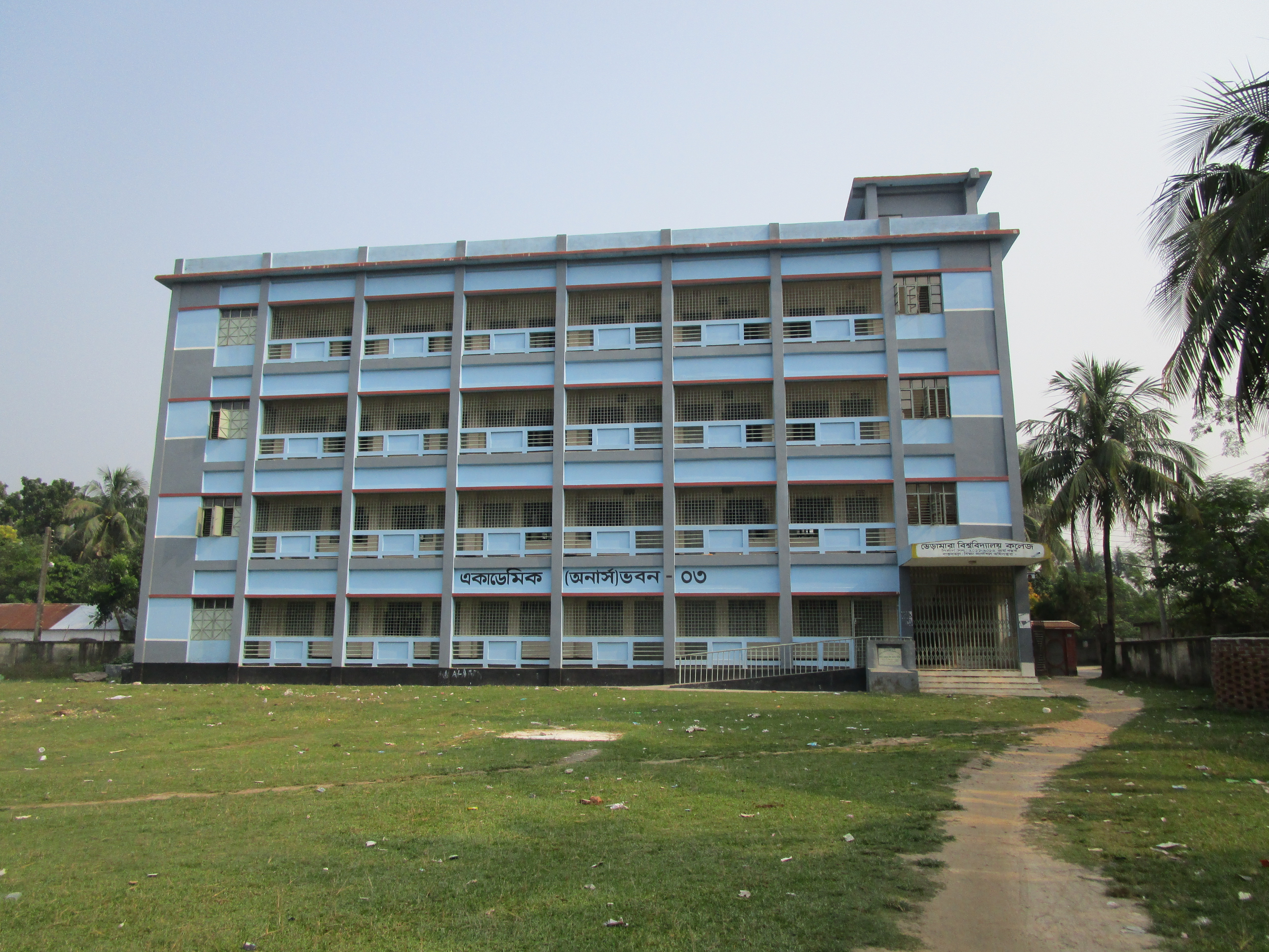 A building of Veramara College.